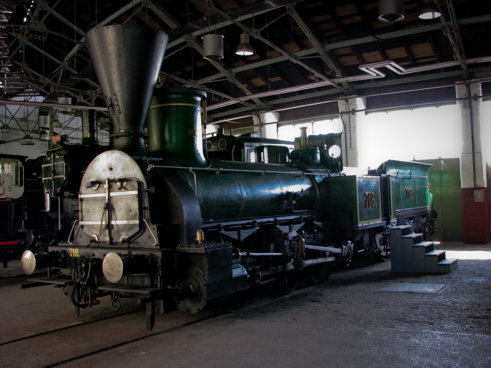 Freight locomotive SB 718 in Railway Museum of the Slovenian Railways